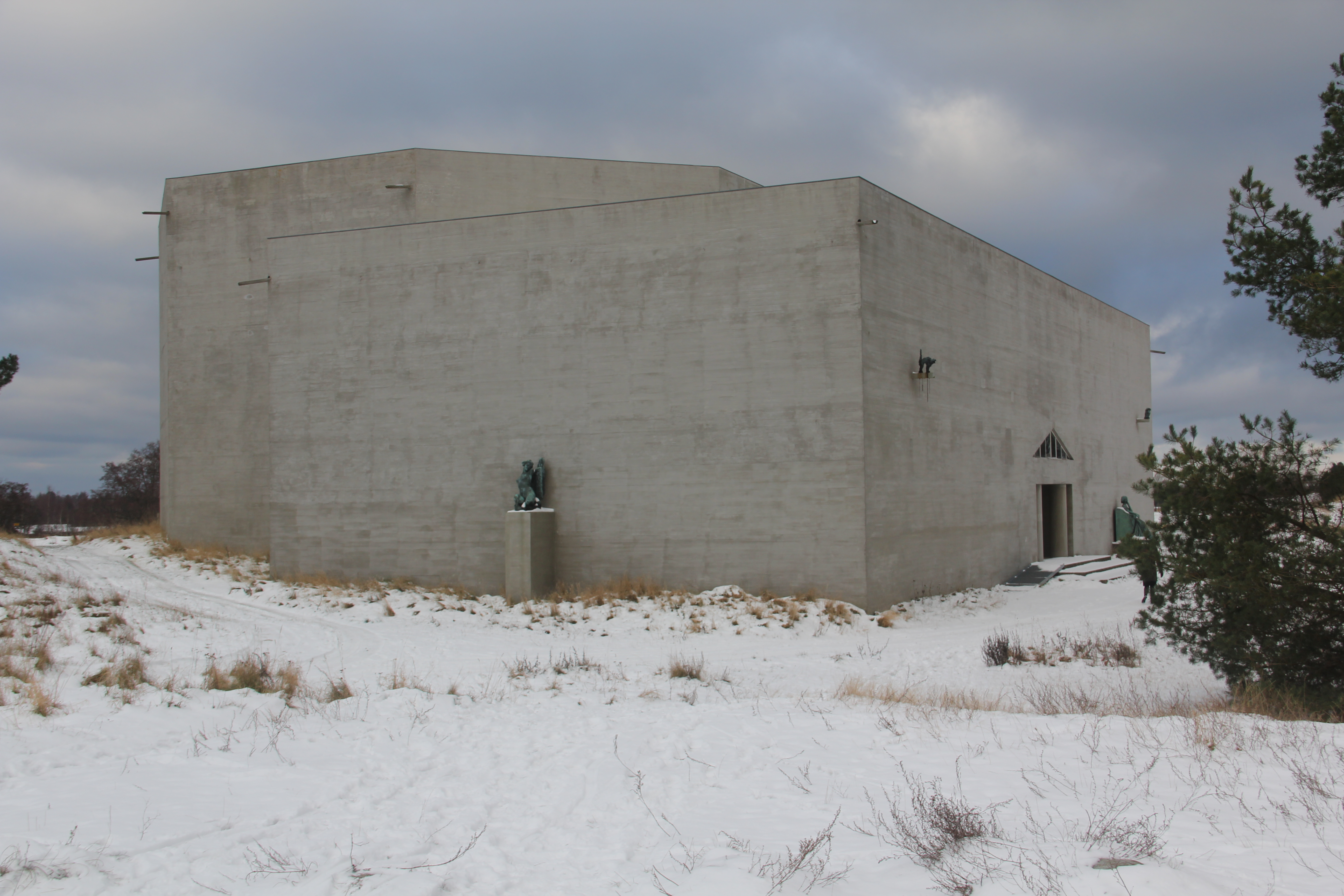 Tegners museum in winter